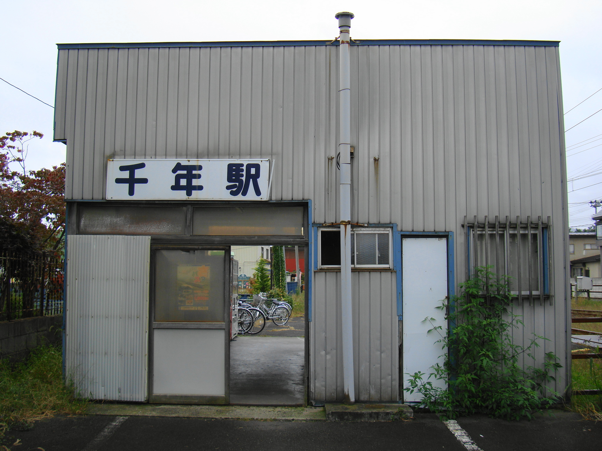 Chitose Station (Aomori)